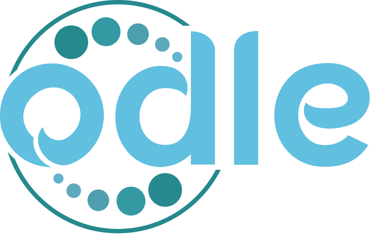 odle social network logo